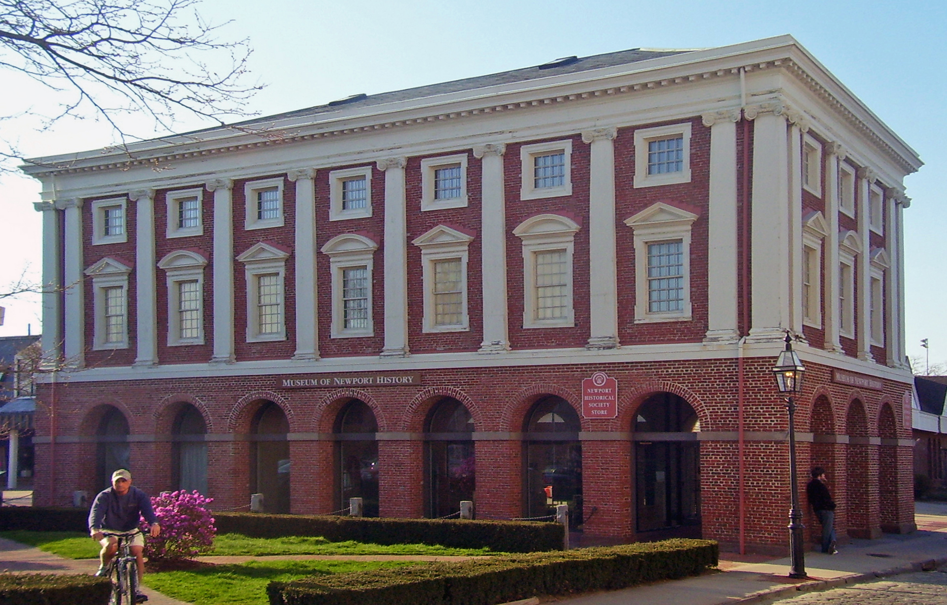 Museum of Newport History in the Old Brick Market — at 127 Thames Street on Washington Square in Newport, Rhode Island. A Historic district contributing property within the Newport Historic District.